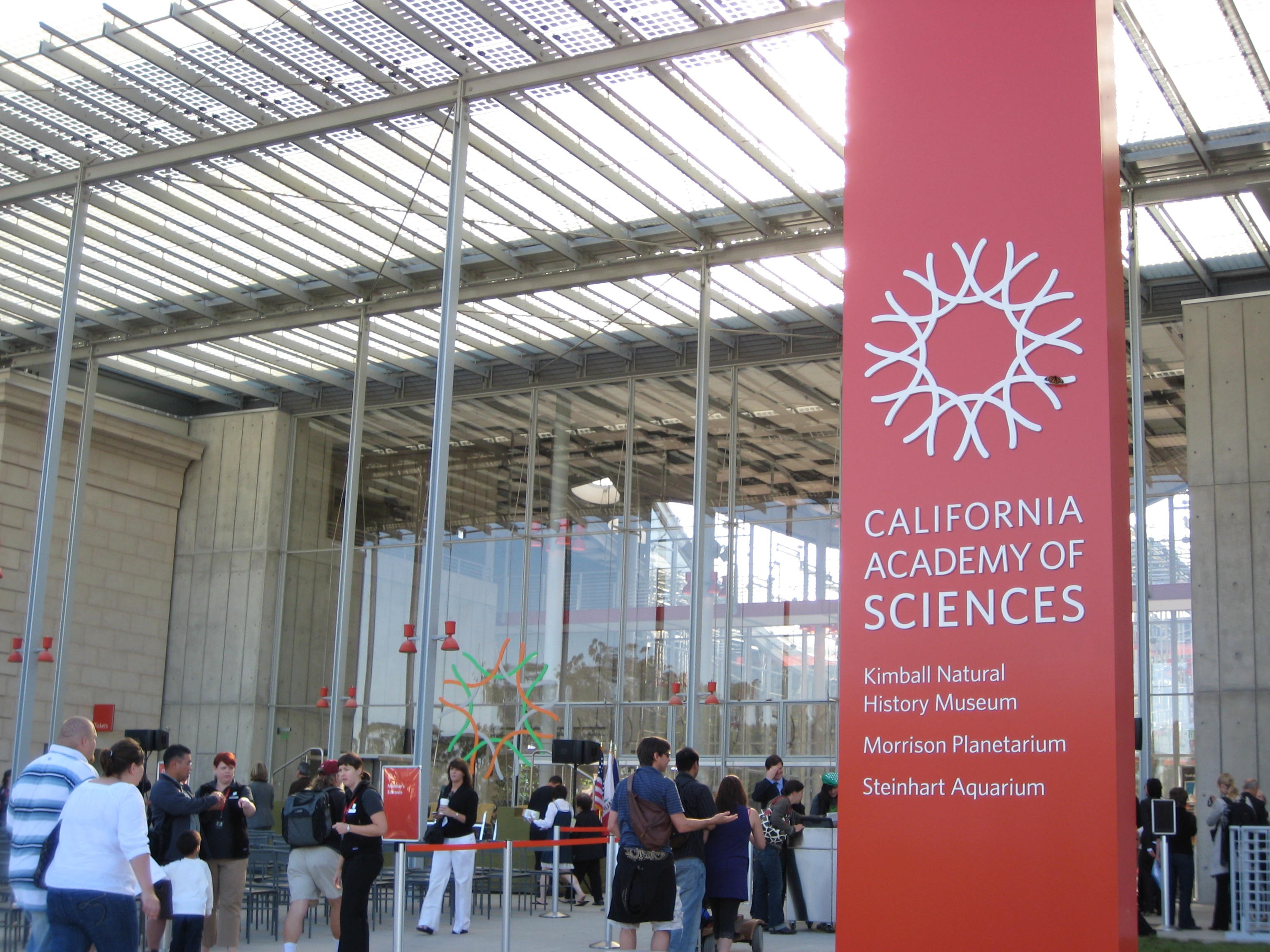 Another shot of CAS